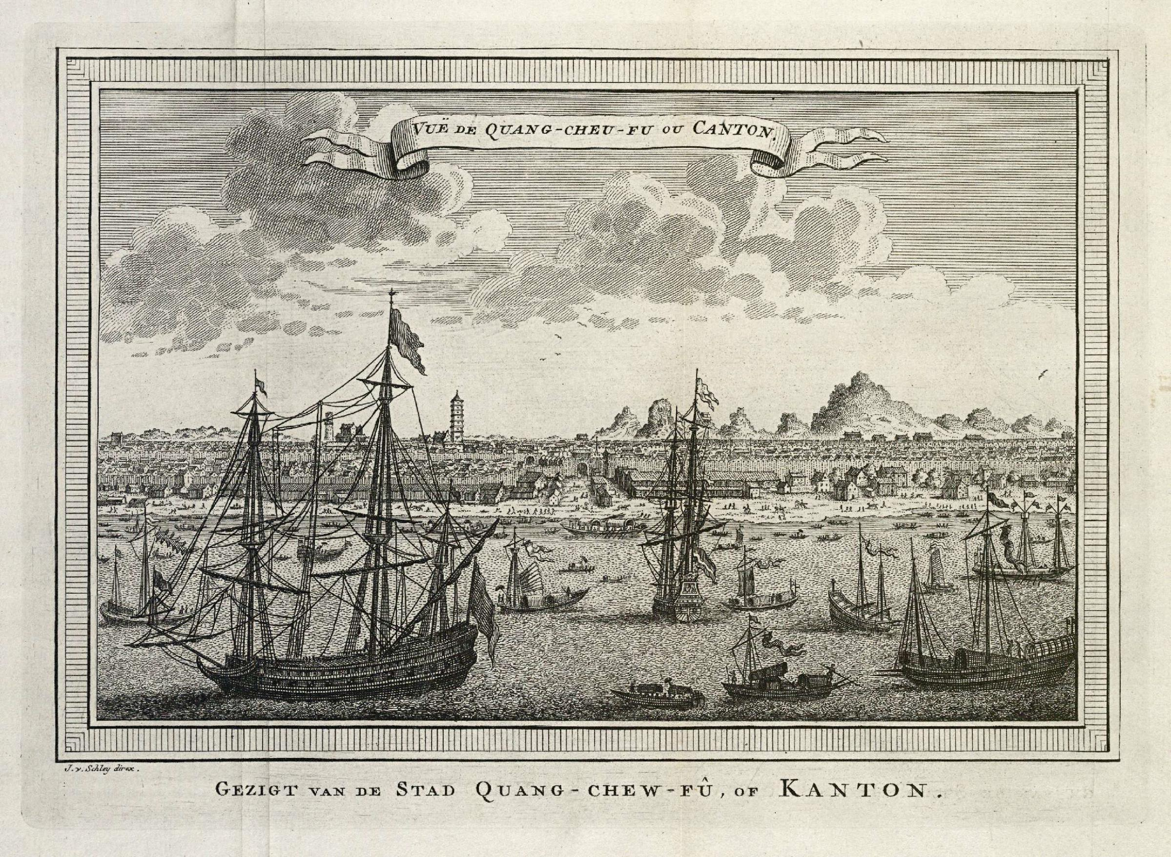 View of Canton. . Gezigt van de Stad Quang-chew-fû, of Kanton. Vuë de Quang-cheu-fu ou Canton. Cf. Koninklijke Bibliotheek, The Hague, inv. nr. 227 K 2 part IV, after p. 82.